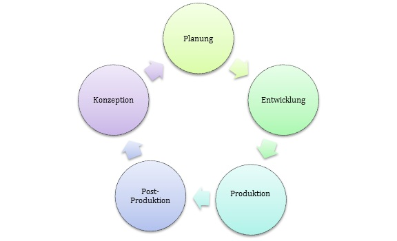 Production in theatre